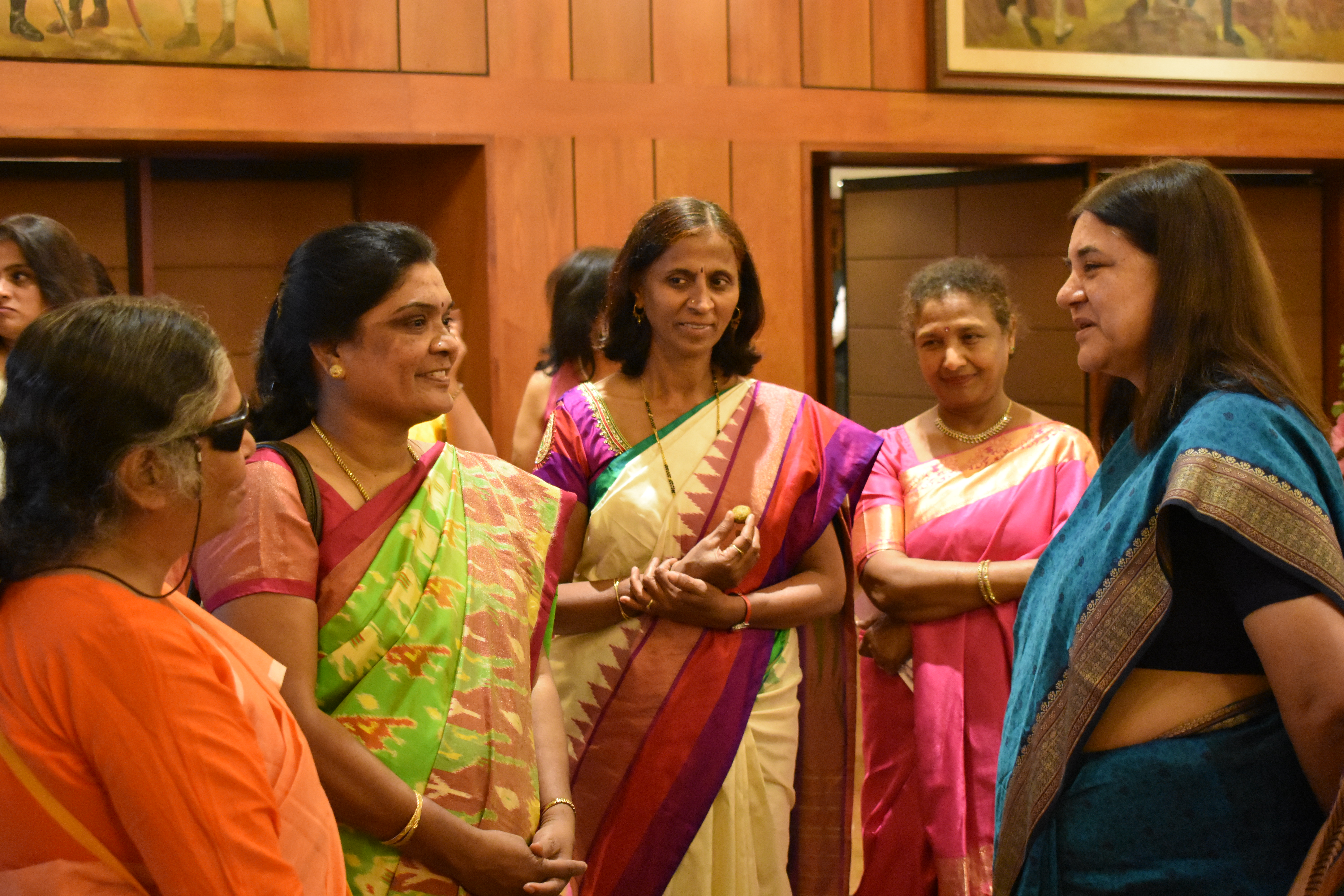 Gargi Gupta at left & other awardees with Ms. Maneka Gandhi